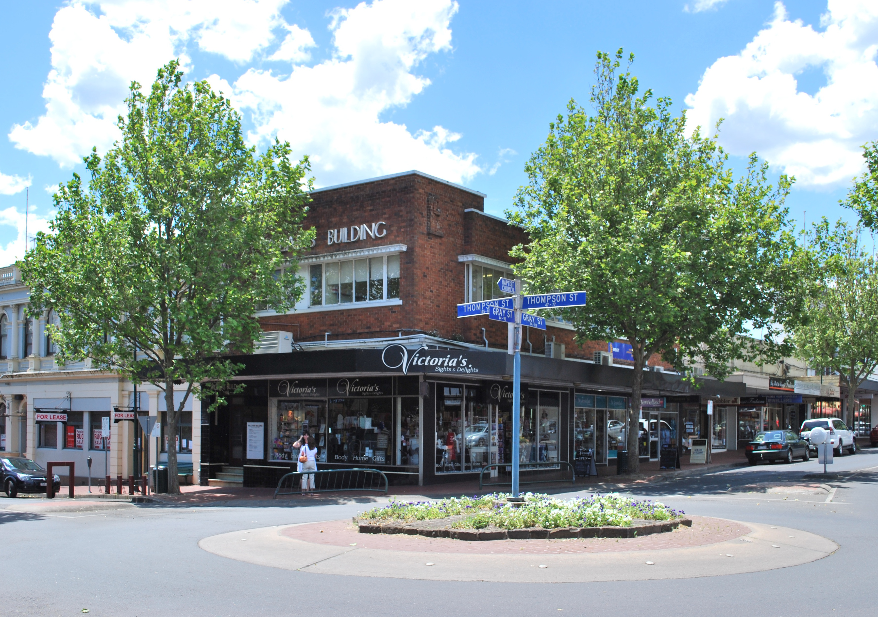 The roundabout on the corner of Thompson and Gray Streets in the centre of Hamilton, Victoria